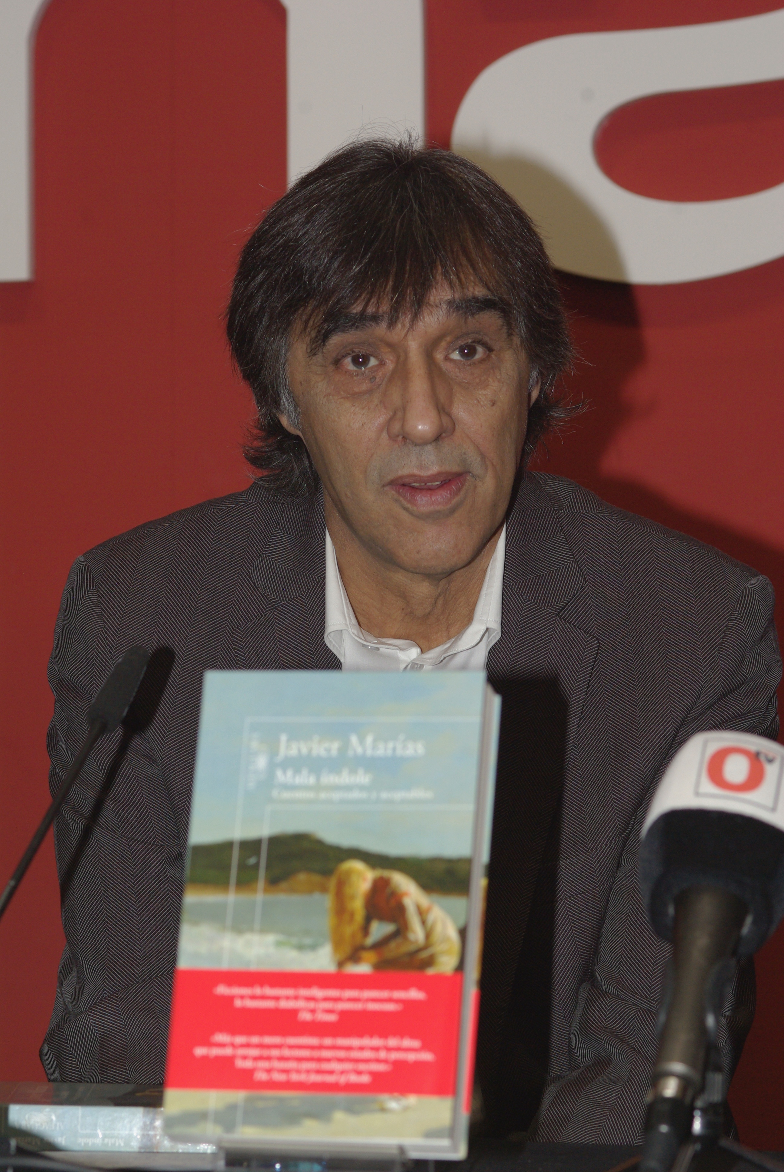 Spanih film director Agustín Díaz Yanes presenting the of short stories of his friend, Javier Marías, Fnac Preciados, Madrid, October 19, 2012